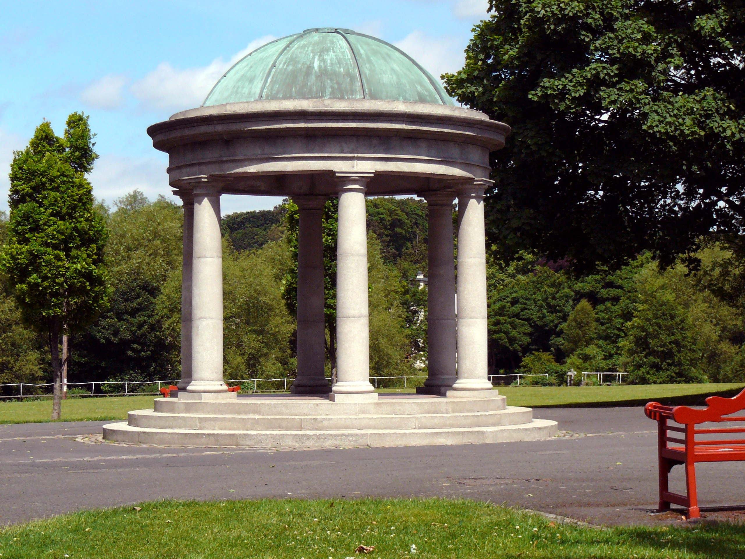 Central dome-shaped temple in the Irish National War Memorial Gardens, Dublin, Ireland